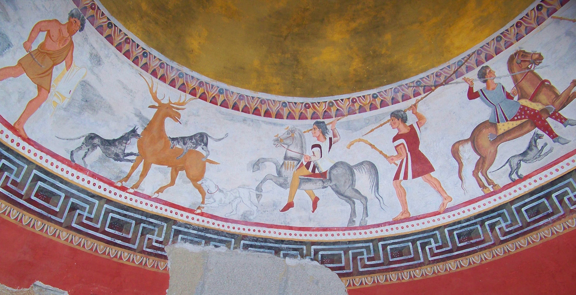 aleksandrovo tomb near Haskovo district Bulgaria